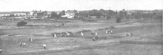 Cop Bunkers at Chicago Golf Club, Wheaton, Illinois